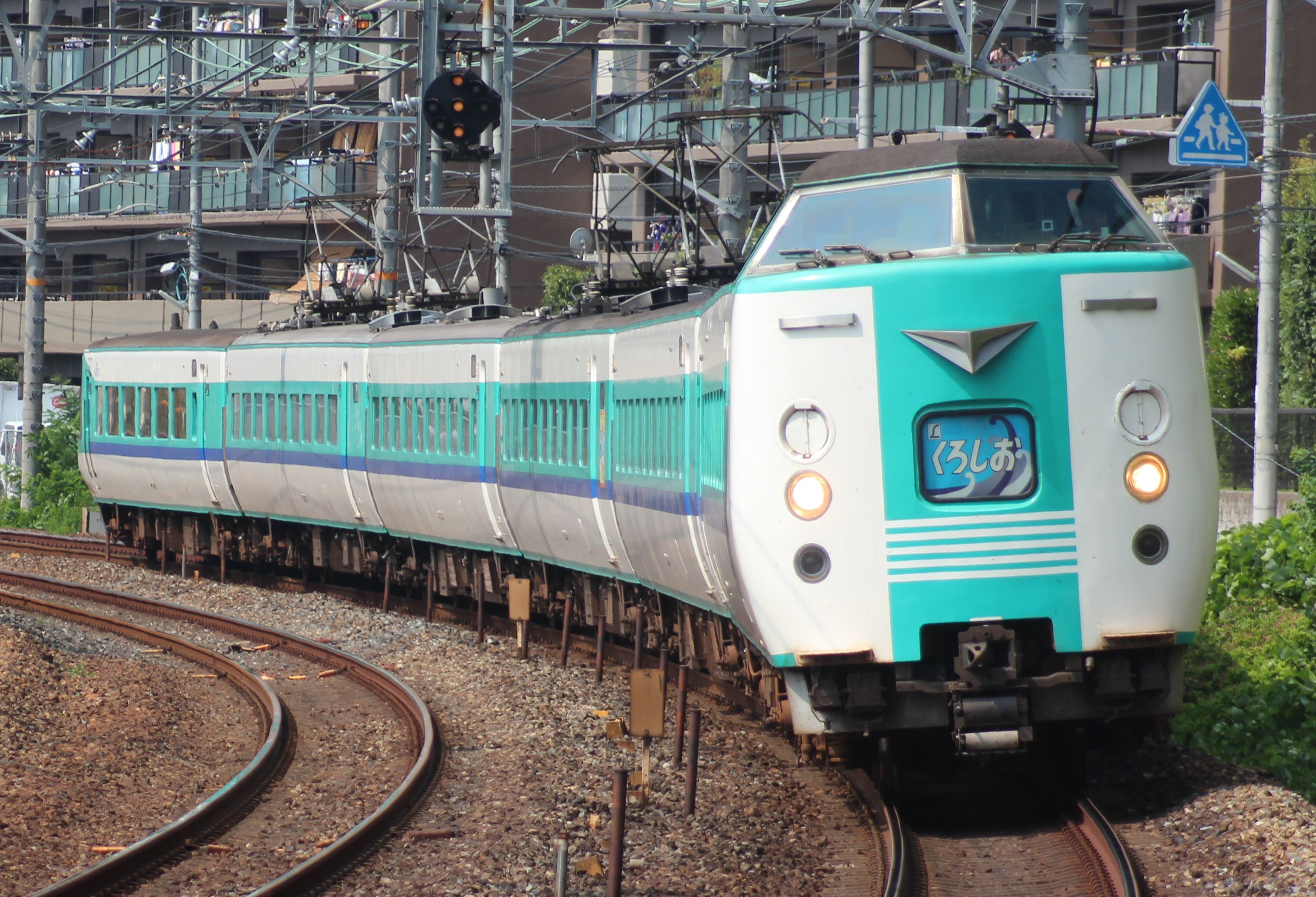 A JR West 381 series EMU on a Kuroshio limited express service